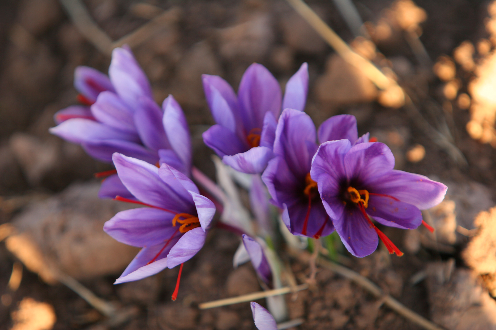 October 30, 2007 - Saffron farm, Torbat heydariyeh, Razavi Khorasan province, Iran - Photo by: Safa Daneshvar - A trip with Faraz Saffron Co. Ltd.